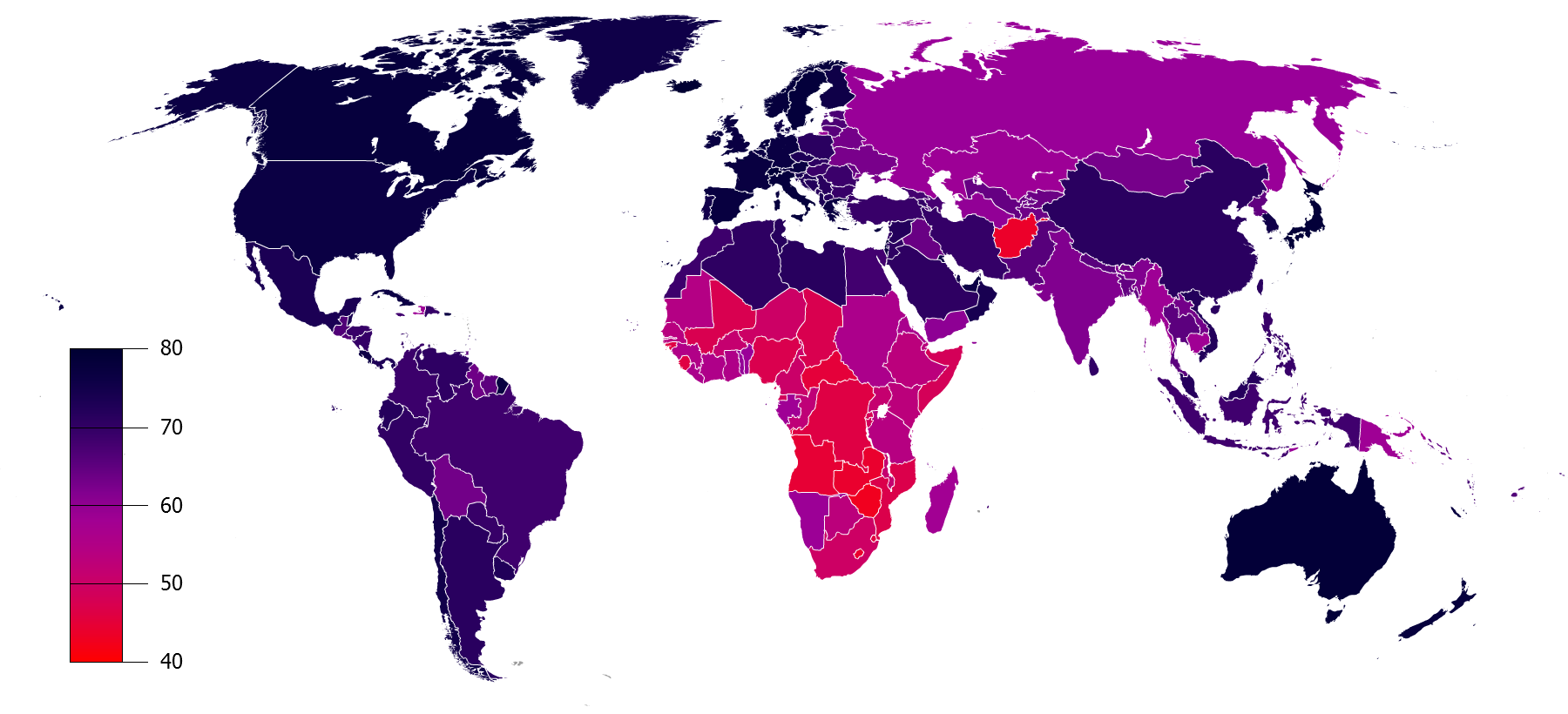 "The number of years a newborn male infant could expect to live if prevailing patterns of age-specific mortality rates at the time of birth were to stay the same throughout the child’s life."